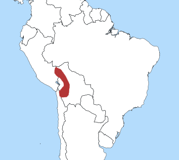 The Distribution of the Titicaca Grebe. Note: Red highlight extends too far north, but does not include main distribution of the Titicaca Grebe (Lake Titicaca).